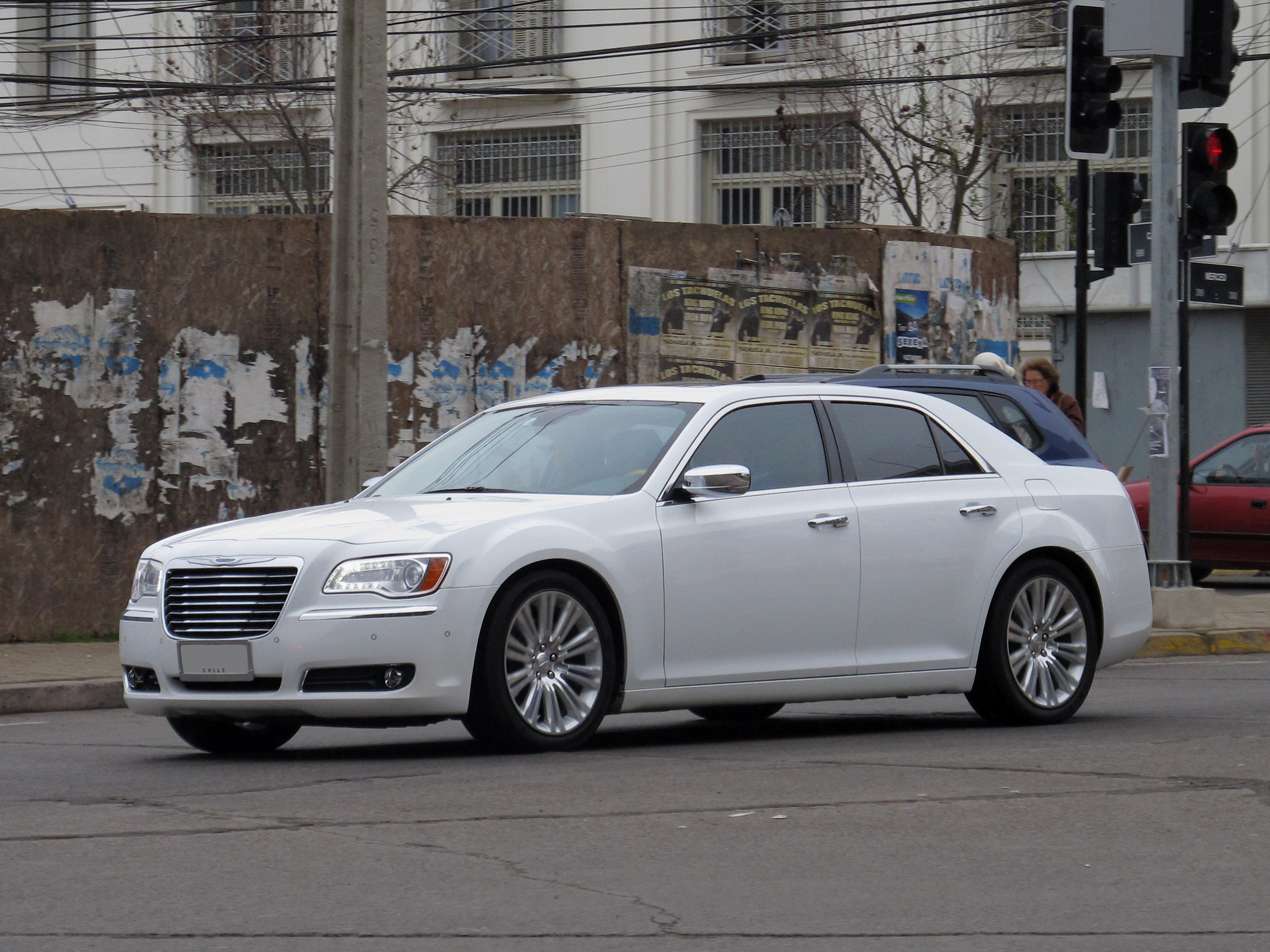 Chrysler 300C 3.6 Limited 2014